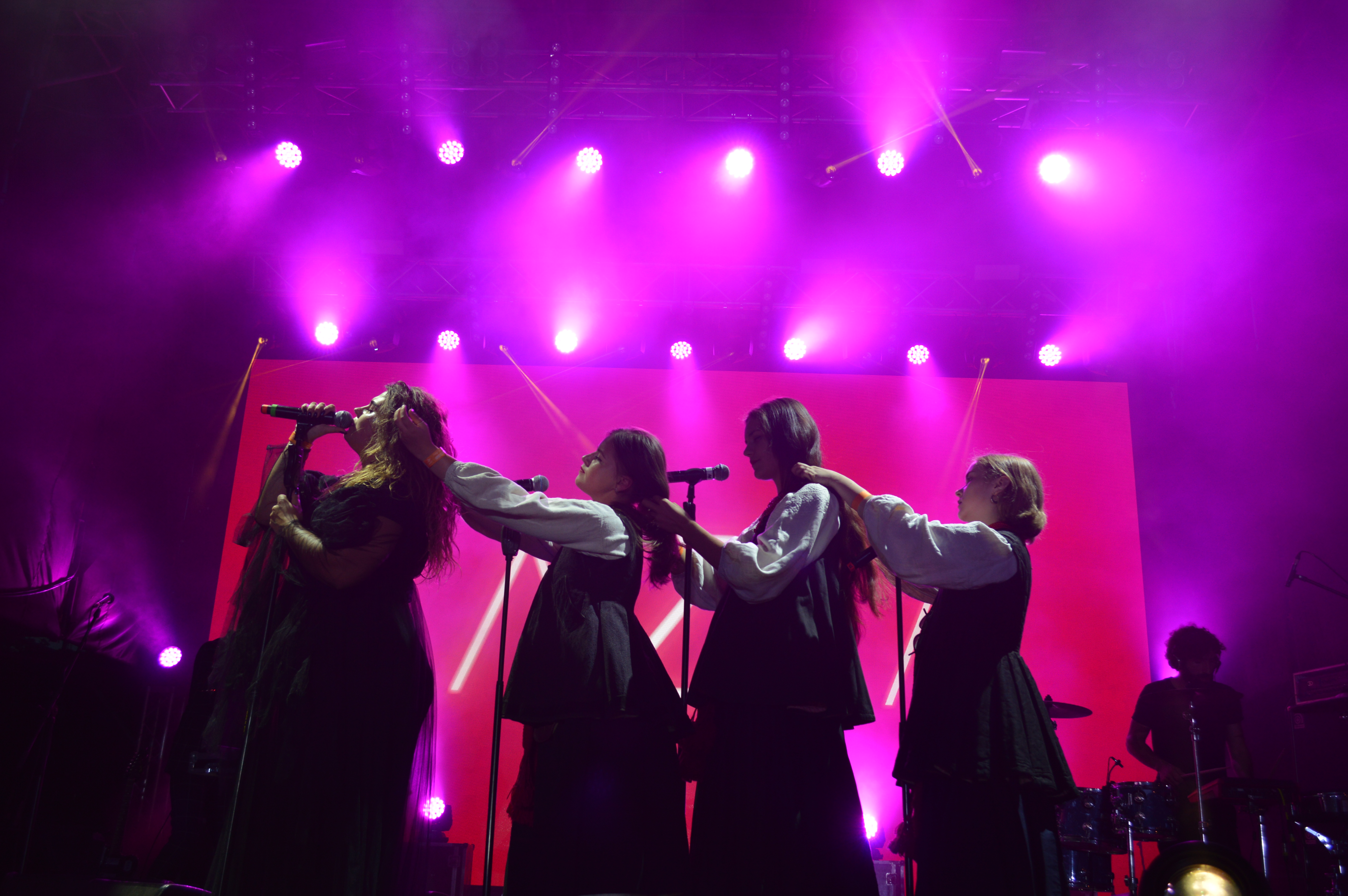 Ukrainian band KAZKA at the 2018 MRPL City Festival.